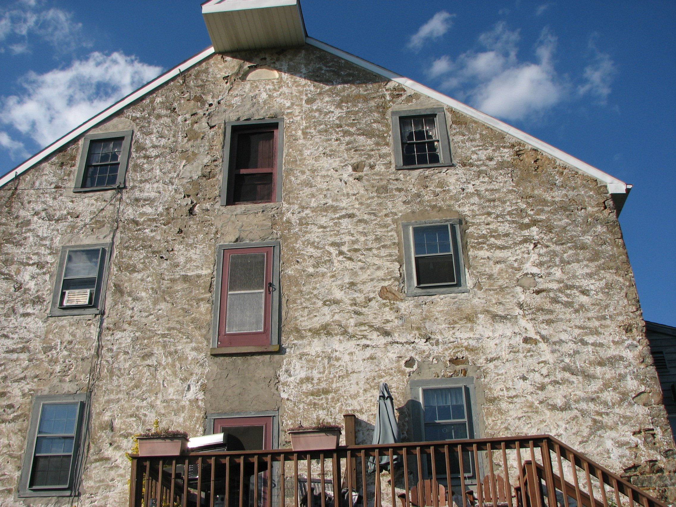 South face of Warwick Mills or James Mill, part of Warwick Mills, on the National Register of Historic Places in Warwick Township, Chester County, Pennsylvania.